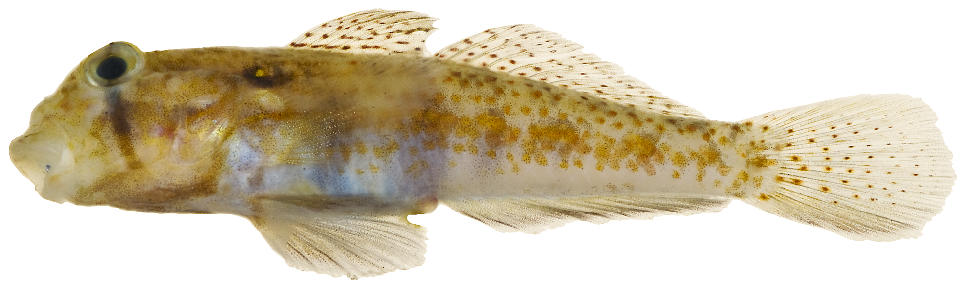 Gnatholepis thompsoni Jordan, 1904—goldspot goby, 31.5 mm SL. Photo by JT Williams.